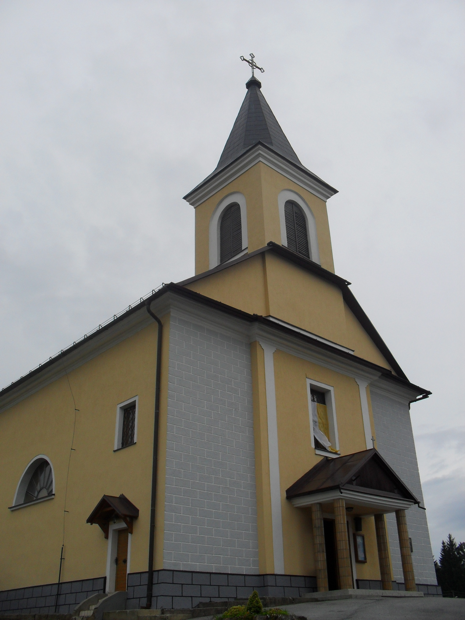 Detvianska Huta - roman catholic church